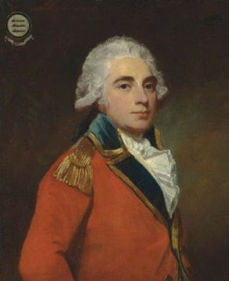 General Albemarle Bertie, 9th Earl of Lindsey